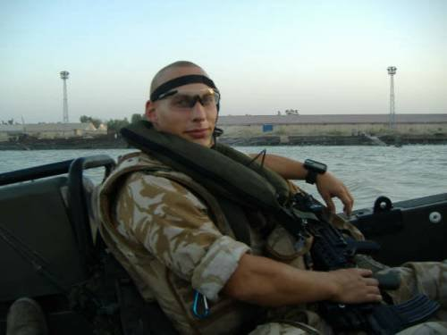 Sgt Mark Sutcliffe